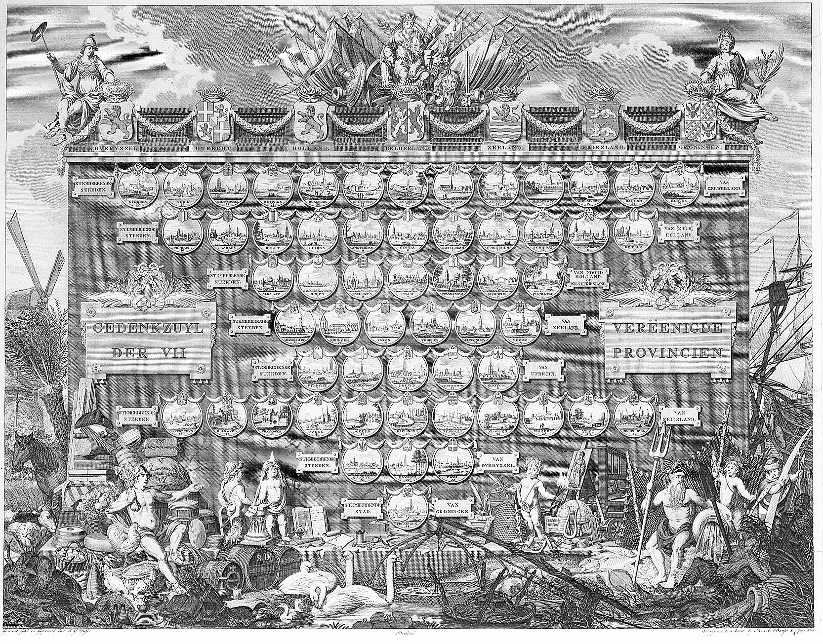 Gedenkzuyl der VII verëenigde Nederlanden I